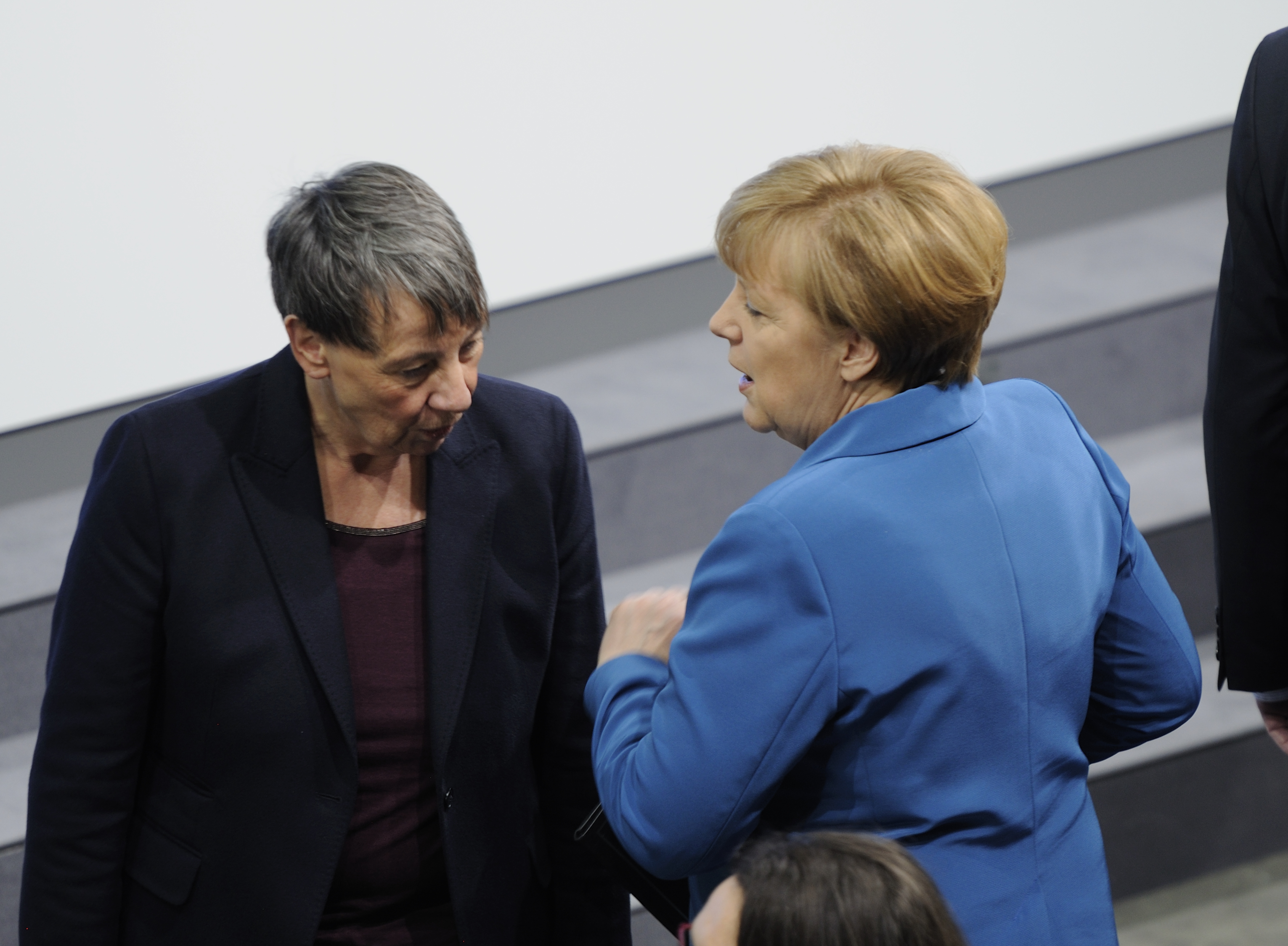 Signing of the coalition agreement for the 18th election period of the Bundestag. Angela Merkel, Barbara Hendricks.